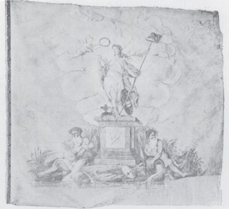 Standard excercitiegenootschap "Voor onze duurste panden" (1785) Groningen